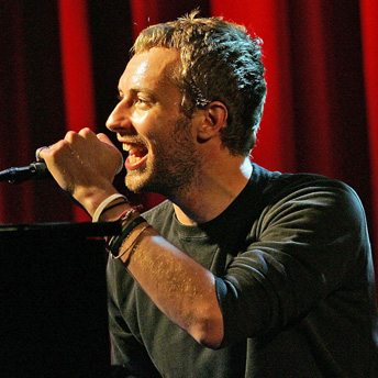 Chris Martin at a concert in England.